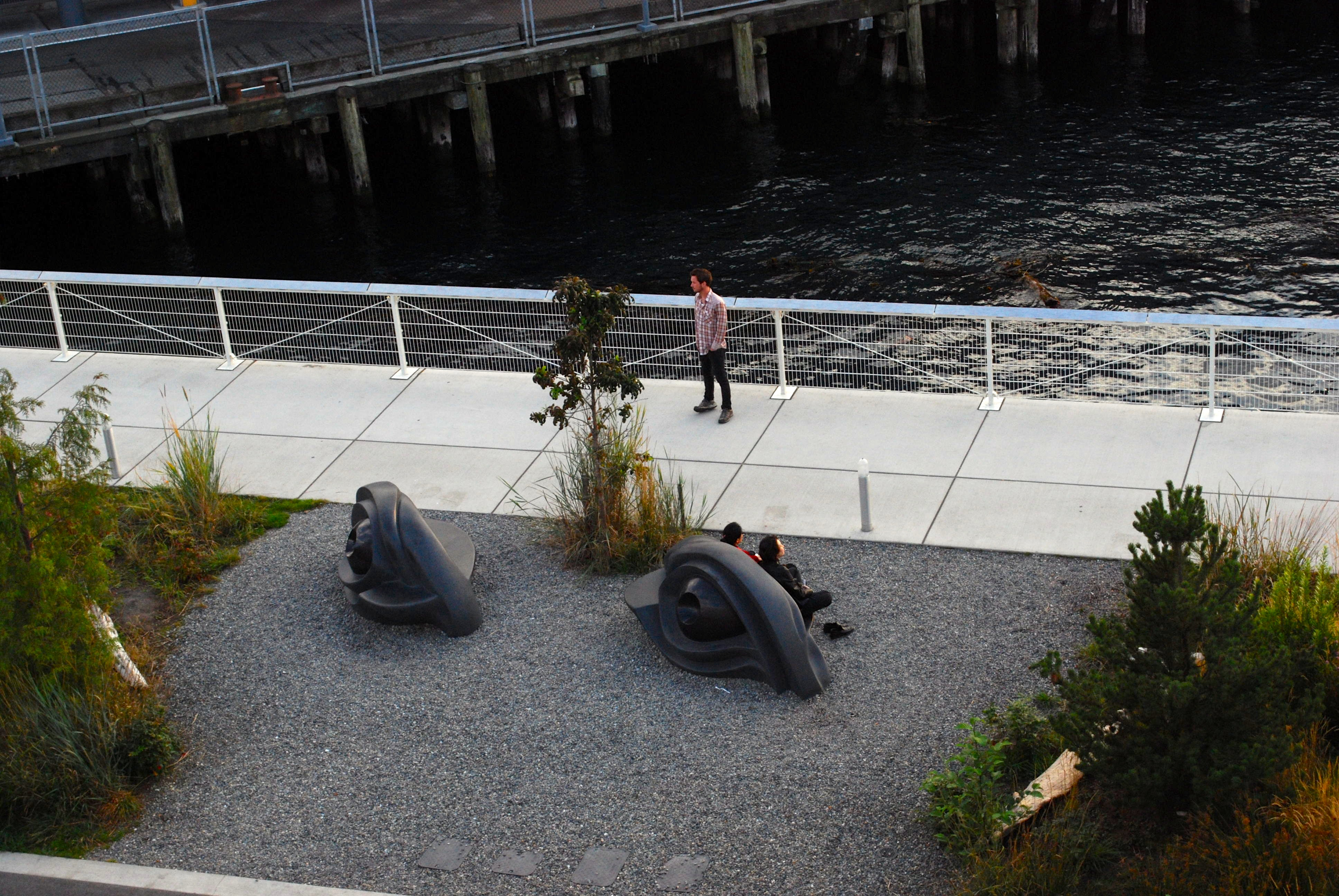 Eye Benches Olympic Sculpture Park Seattle, WA 09.2008